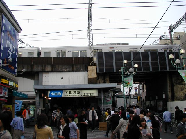 Shimokitazawa Station, southern exit, May 2004.